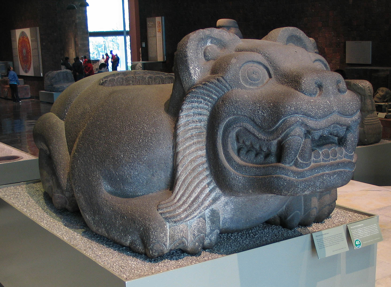 Ocelotl-Cuauhxicalli (mexica room of the National Museum of Anthropology of Mexico City).